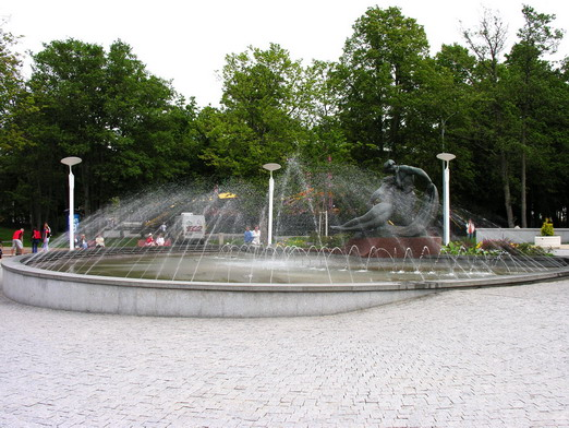 Fountain in Palanga, Lithuania.